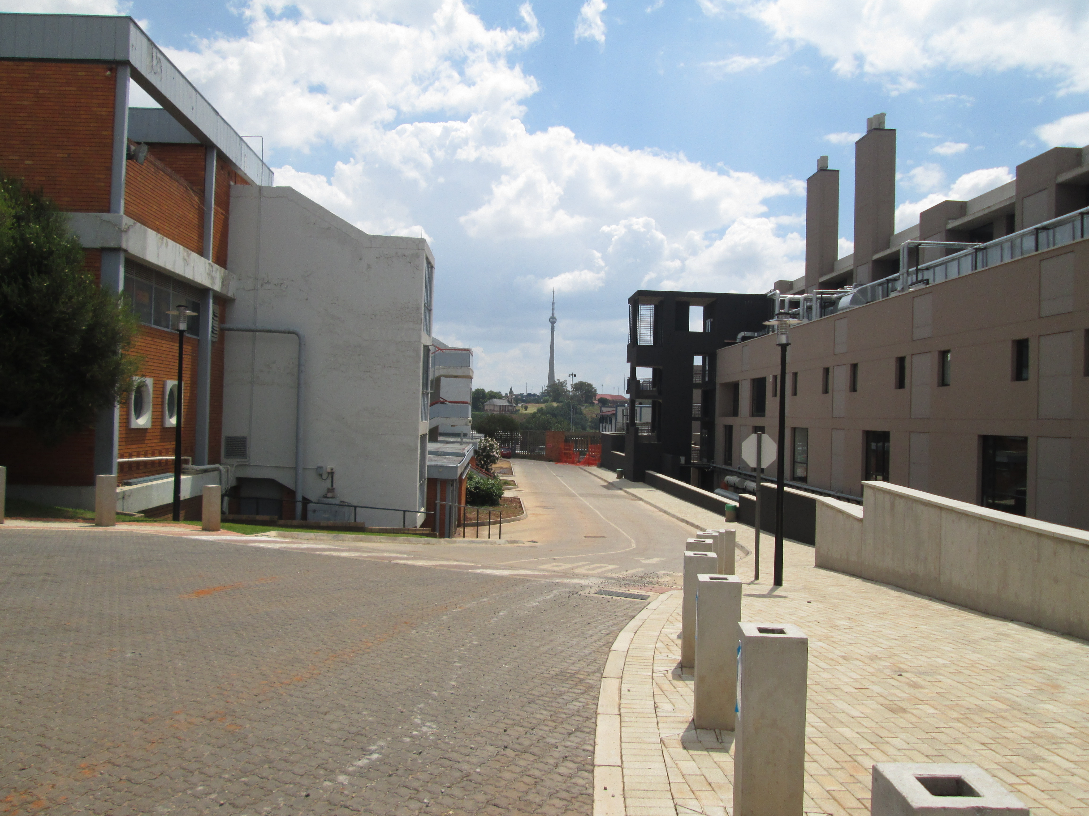 On the West Campus of the University of the Witwatersrand, Johannesburg, facing west toward Brixton Tower, with the view framed by Flower Hall (left) and the Science Stadium (right).